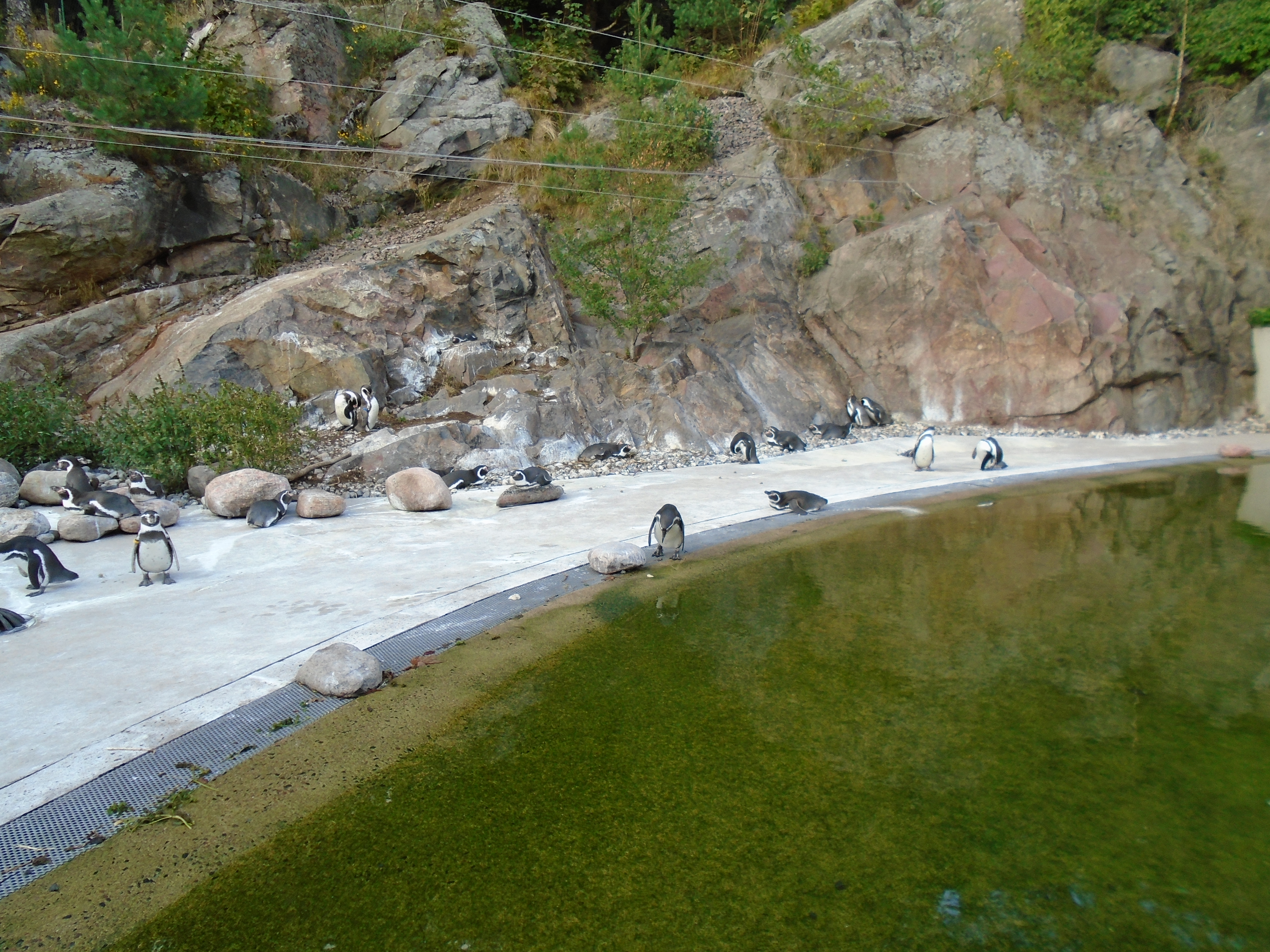 Penguins in Slottsskogen, Göteborg, Sweden.